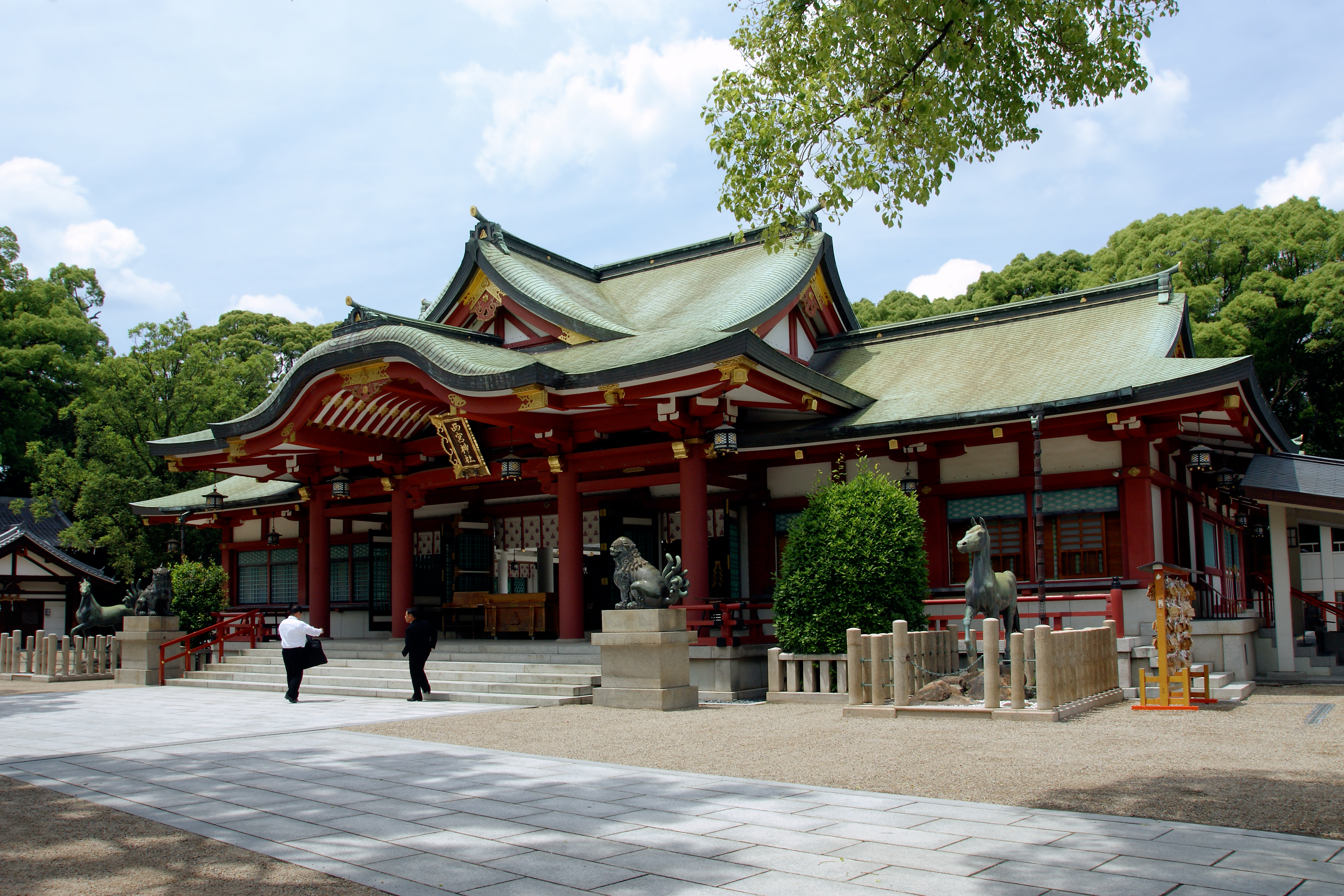 Nishinomiya-jinja in Nishinomiya, Hyogo prefecture, Japan